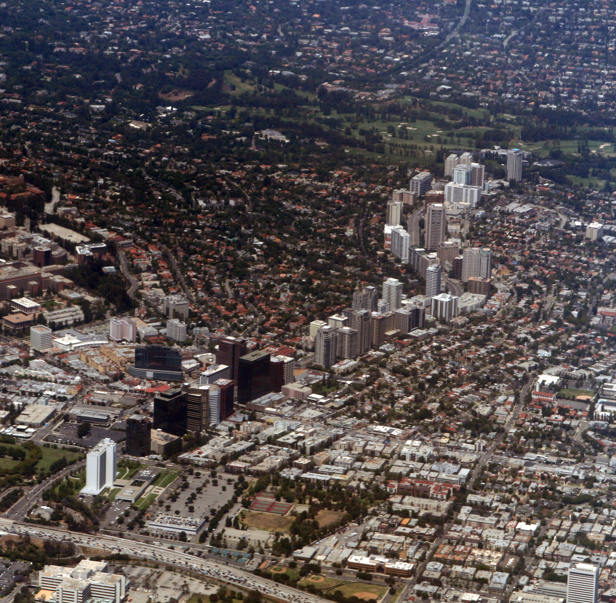 Wilshire Boulevard winds through Westwood. The white highrise on the left is the Wilshire Federal Building at 11000 Wilshire. UCLA is on the left beyond, and the Los Angeles Country Club is at the top. Beyond that is Beverly Hills.